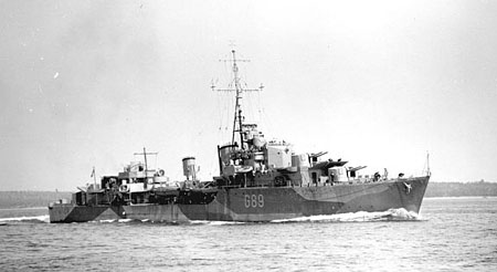 The Royal Canadian Navy destroyer HMCS Iroquois (G89) underway, circa in 1942. The photo was taken from Departmant of National Defence letter to Signalor W.A. Davis (V754) assigned to duty on the Iroquois, 30 November 1942.